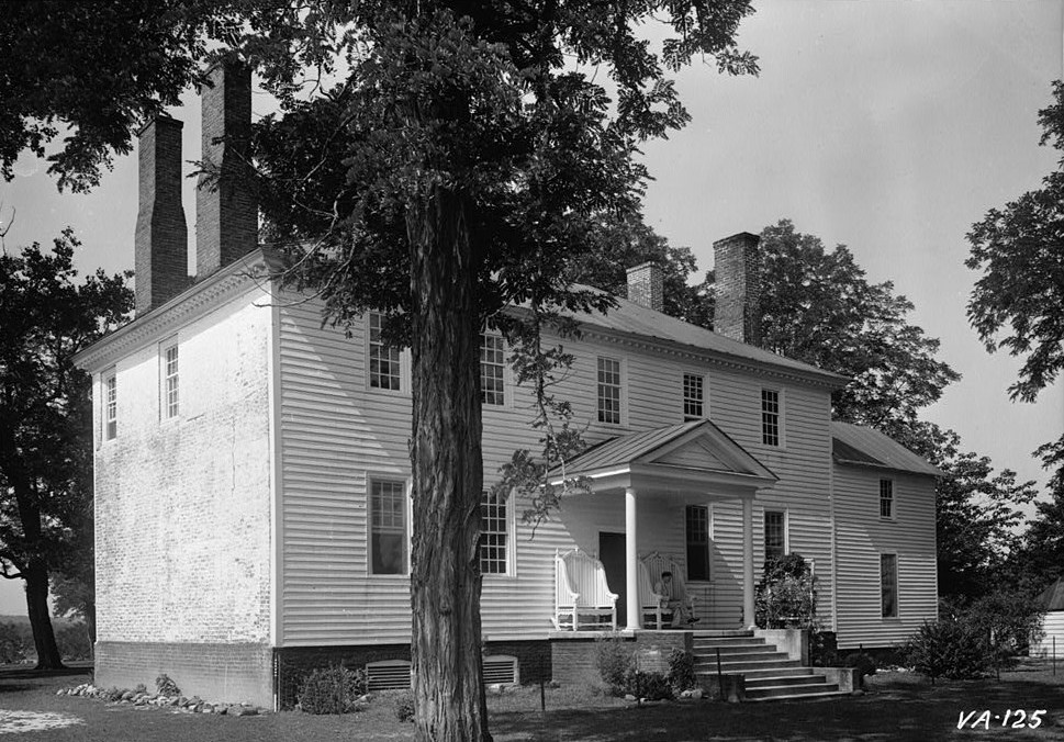 Hillsborough, Walkerton vicinity (King and Queen County, Virginia) cropped This file comes from the Historic American Buildings Survey (HABS), Historic American Engineering Record (HAER) or Historic American Landscapes Survey (HALS). These are programs of the National Park Service established for the purpose of documenting historic places. Records consist of measured drawings, archival photographs, and written reports. When reusing please credit: Library of Congress, Prints & Photographs Division, VA,49-WALK.V,1-1 This tag does not indicate the copyright status of the attached work. A normal copyright tag is still required. See Commons:Licensing for more information. This work is in the public domain in the United States because it is a work prepared by an officer or employee of the United States Government as part of that person’s official duties under the terms of Title 17, Chapter 1, Section 105 of the US Code. See Copyright. Note: This only applies to original works of the Federal Government and not to the work of any individual U.S. state, territory, commonwealth, county, municipality, or any other subdivision. This template also does not apply to postage stamp designs published by the United States Postal Service since 1978. (See § 313.6(C)(1) of Compendium of U.S. Copyright Office Practices). It also does not apply to certain US coins; see The US Mint Terms of Use. This file has been identified as being free of known restrictions under copyright law, including all related and neighboring rights.